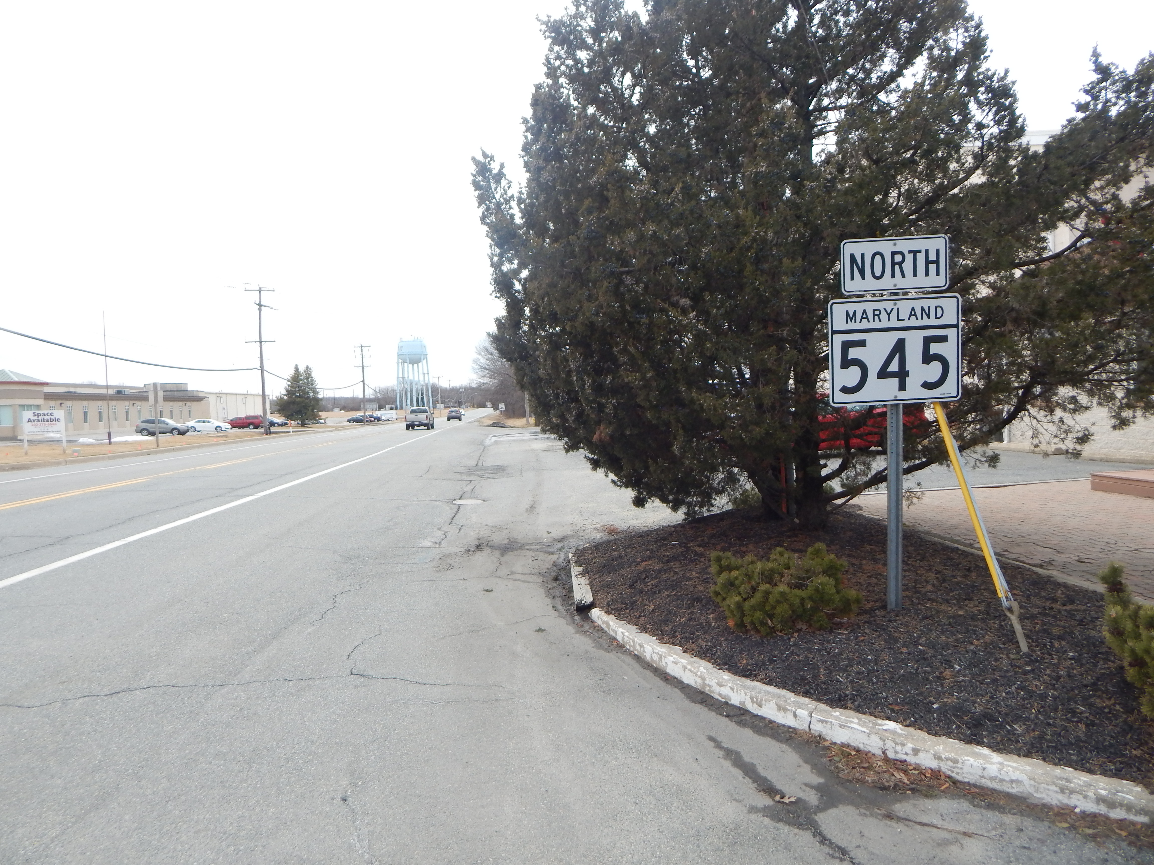 Route 545 heading from Route 213 in Elkton, Maryland.